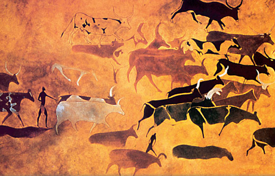 Rock painting of cattle in Africa